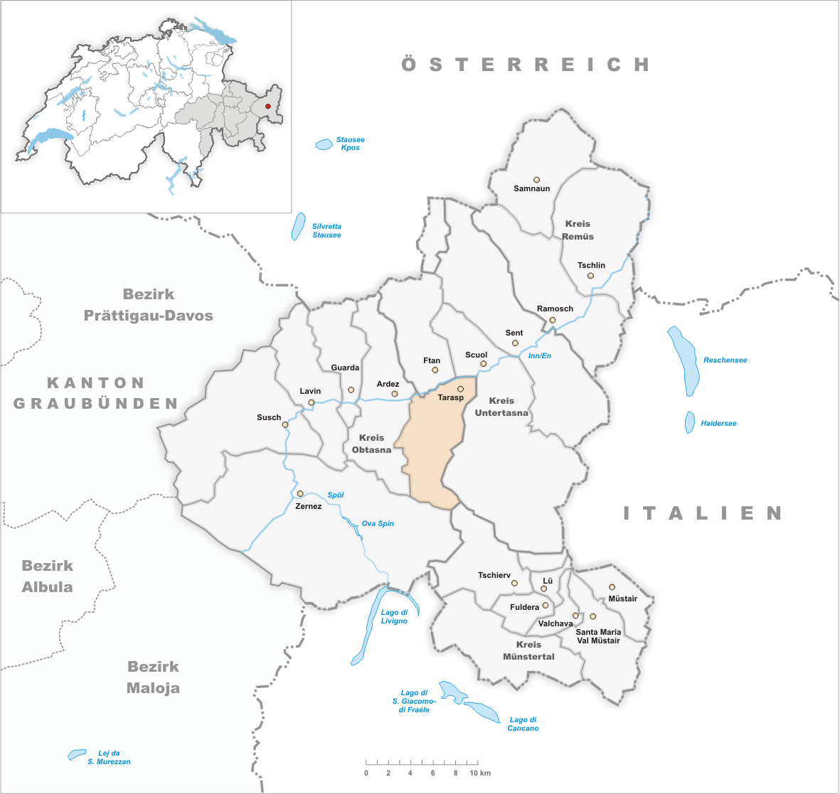 Municipality Tarasp